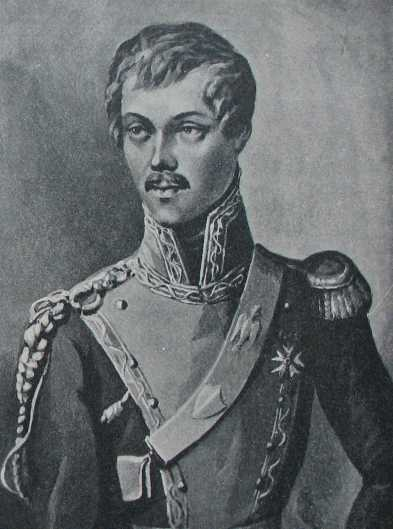 Portrait of the Polish Chevauleger Kozietulski